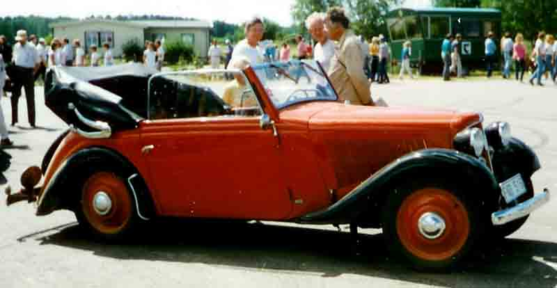 Adler Trumpf Junior Cabriolet 1938